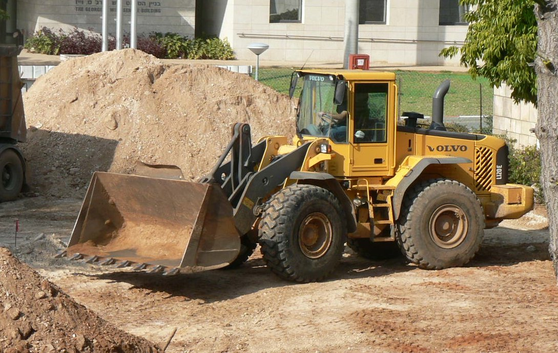 A Volvo L120E front loader